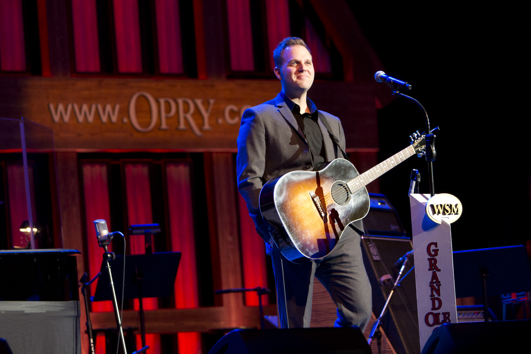 Matthew West live at the Grand Ole Opry